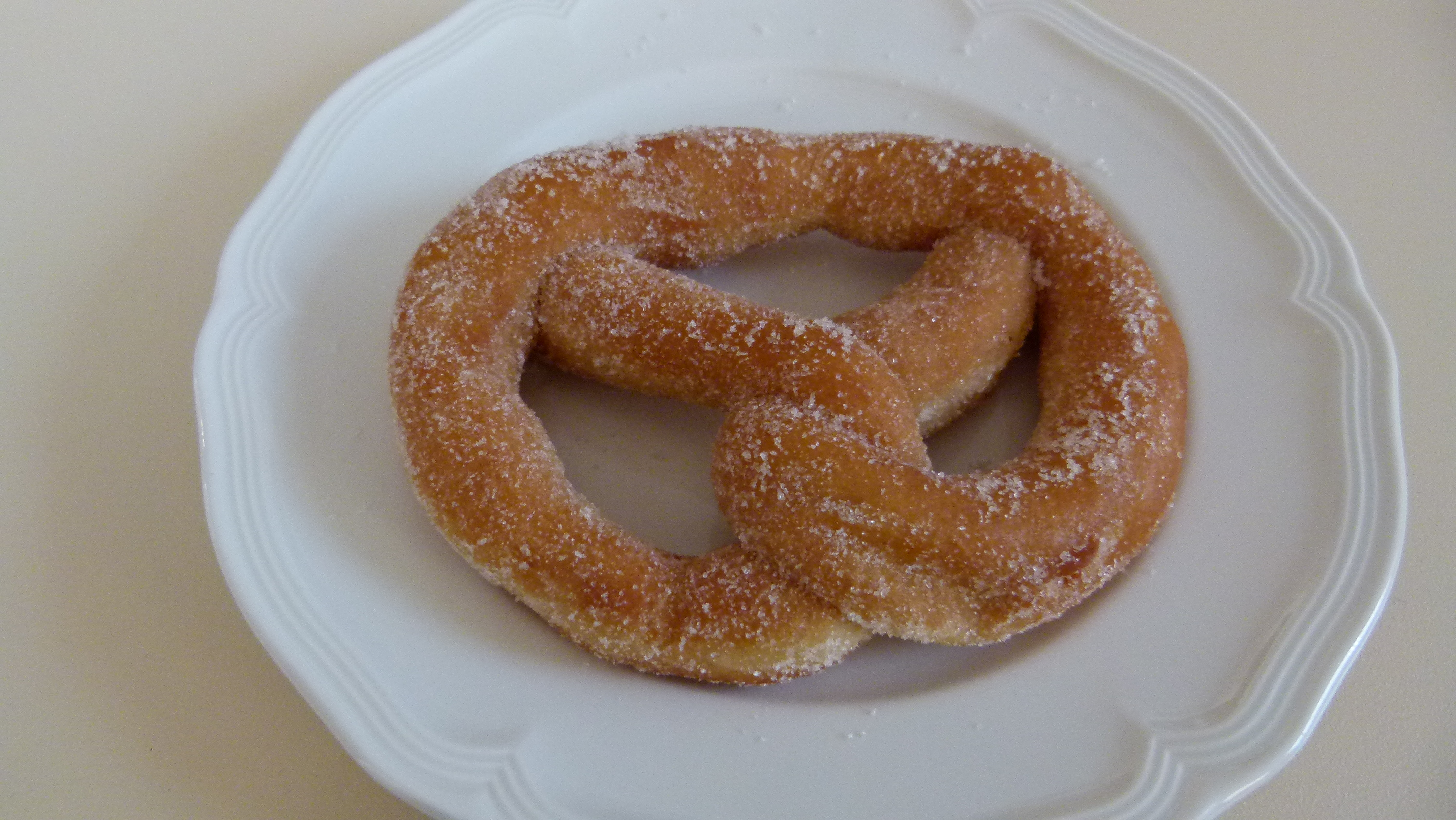 Pfannkuchenbrezeln - Süße Brezeln aus Pfannkuchenteig, Schaubäckerei Ullrich, Striesen, Dresden